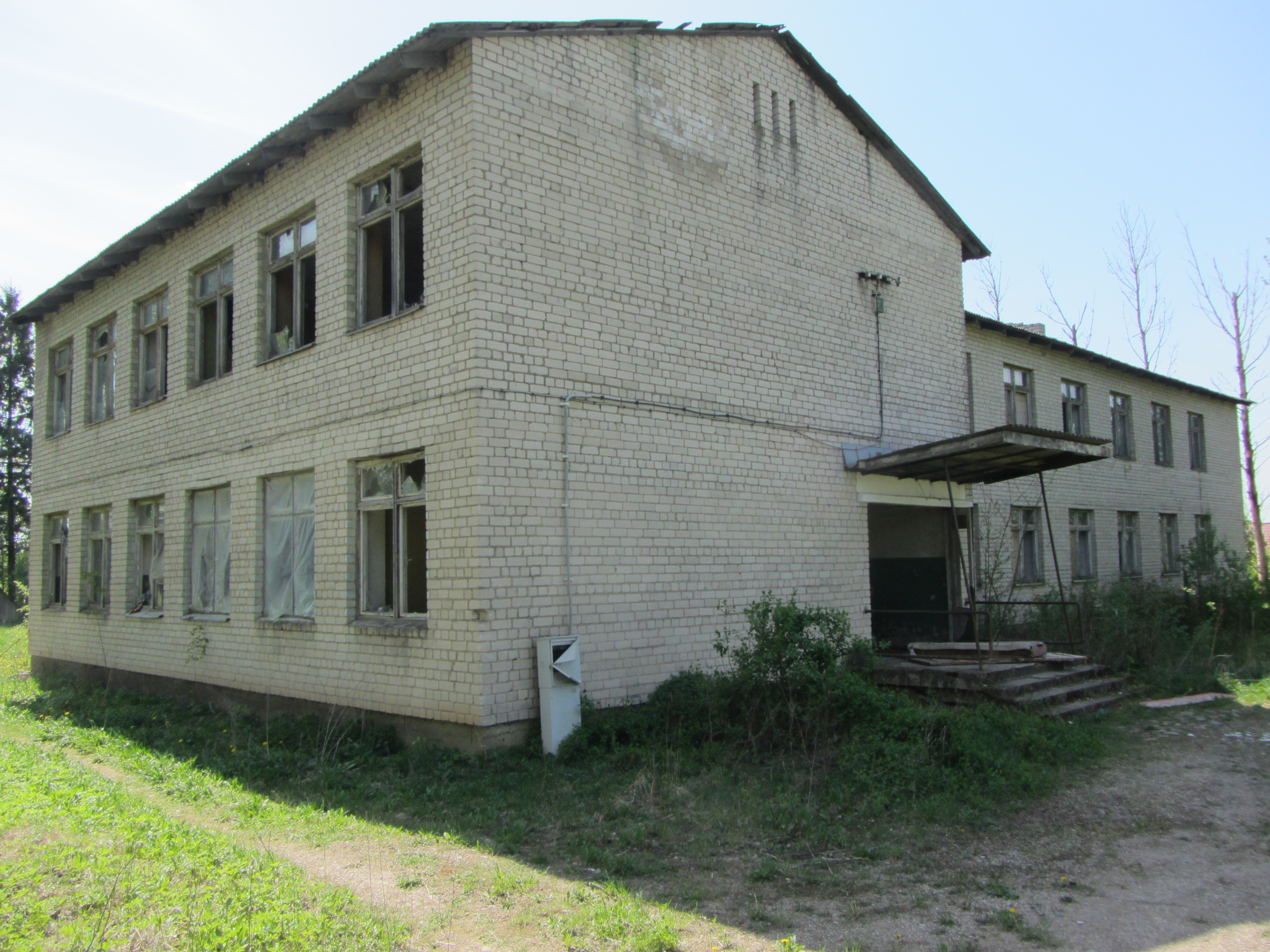 Ismonys 21109, Lithuania